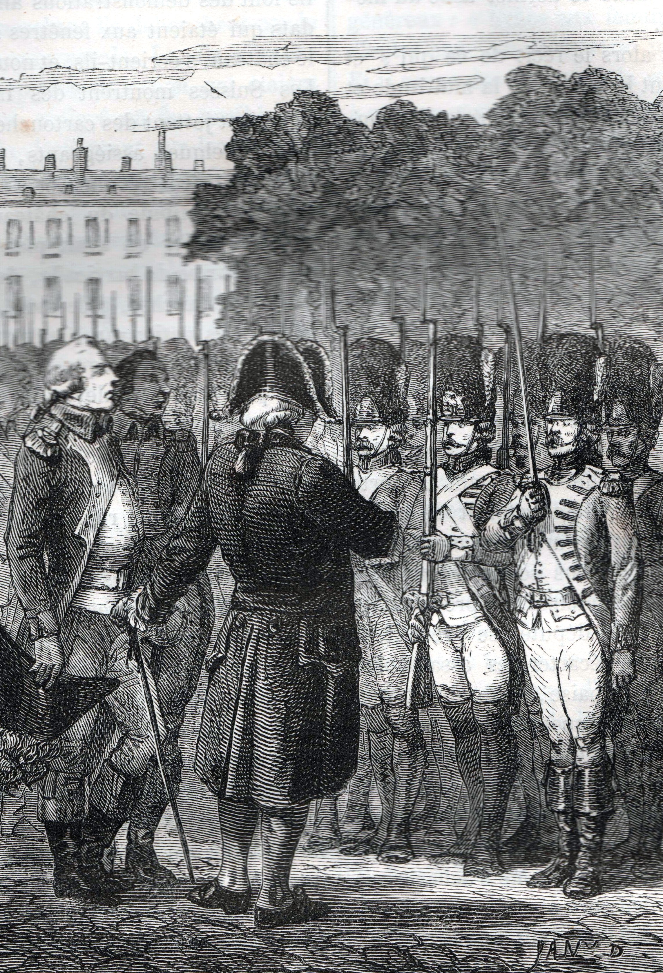 Louis XVI, Tuileries, Joseph-Augustin de Mailly Marshall of France 10 August 1792.